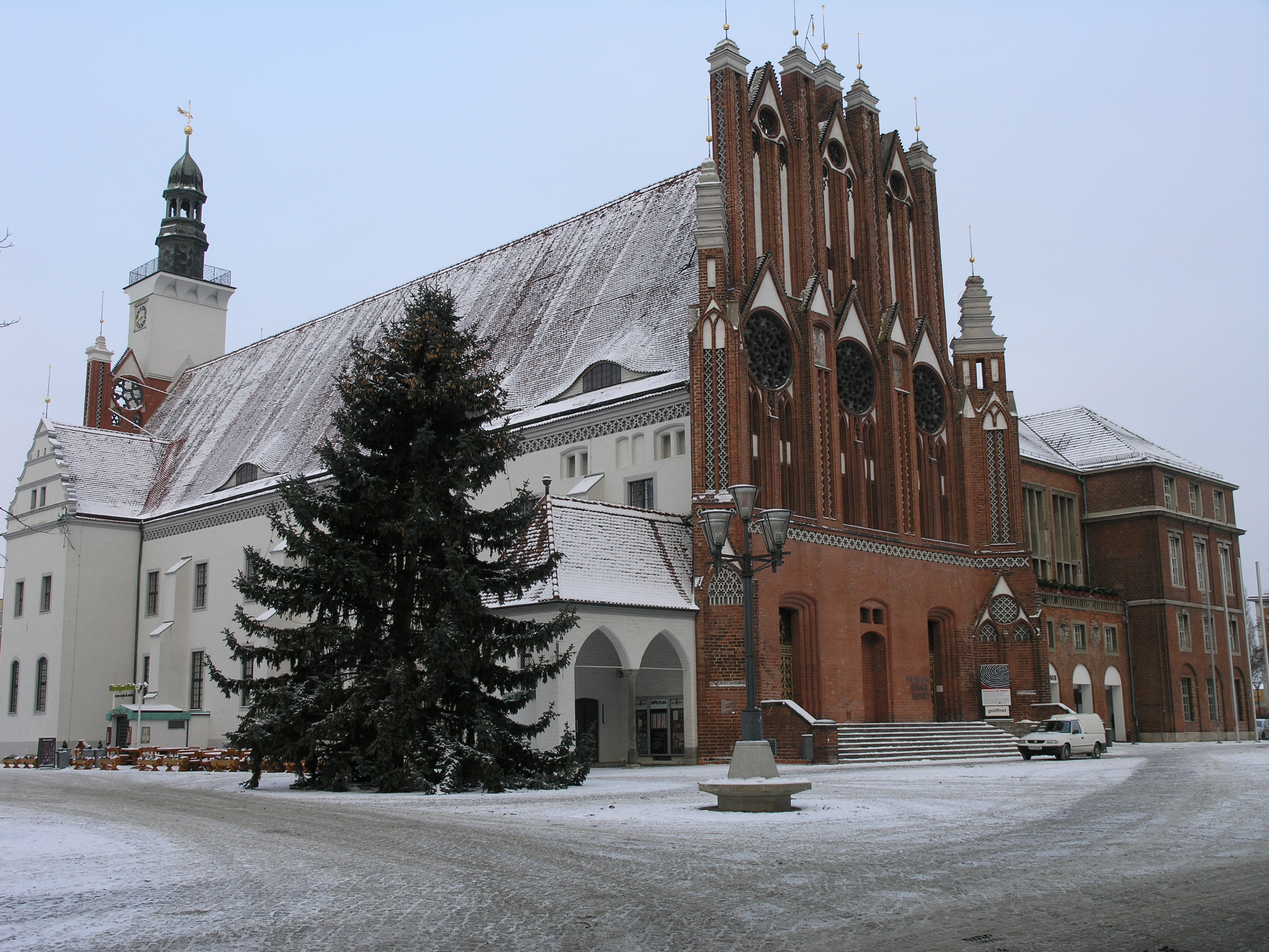 Frankfurt (Oder) Rathaus, 2009